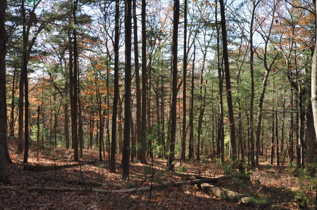 Landscape view in the George Washington Grove Wildlife Management Area, Smithfield Rhode Island. There is a listed archeological site in this area.